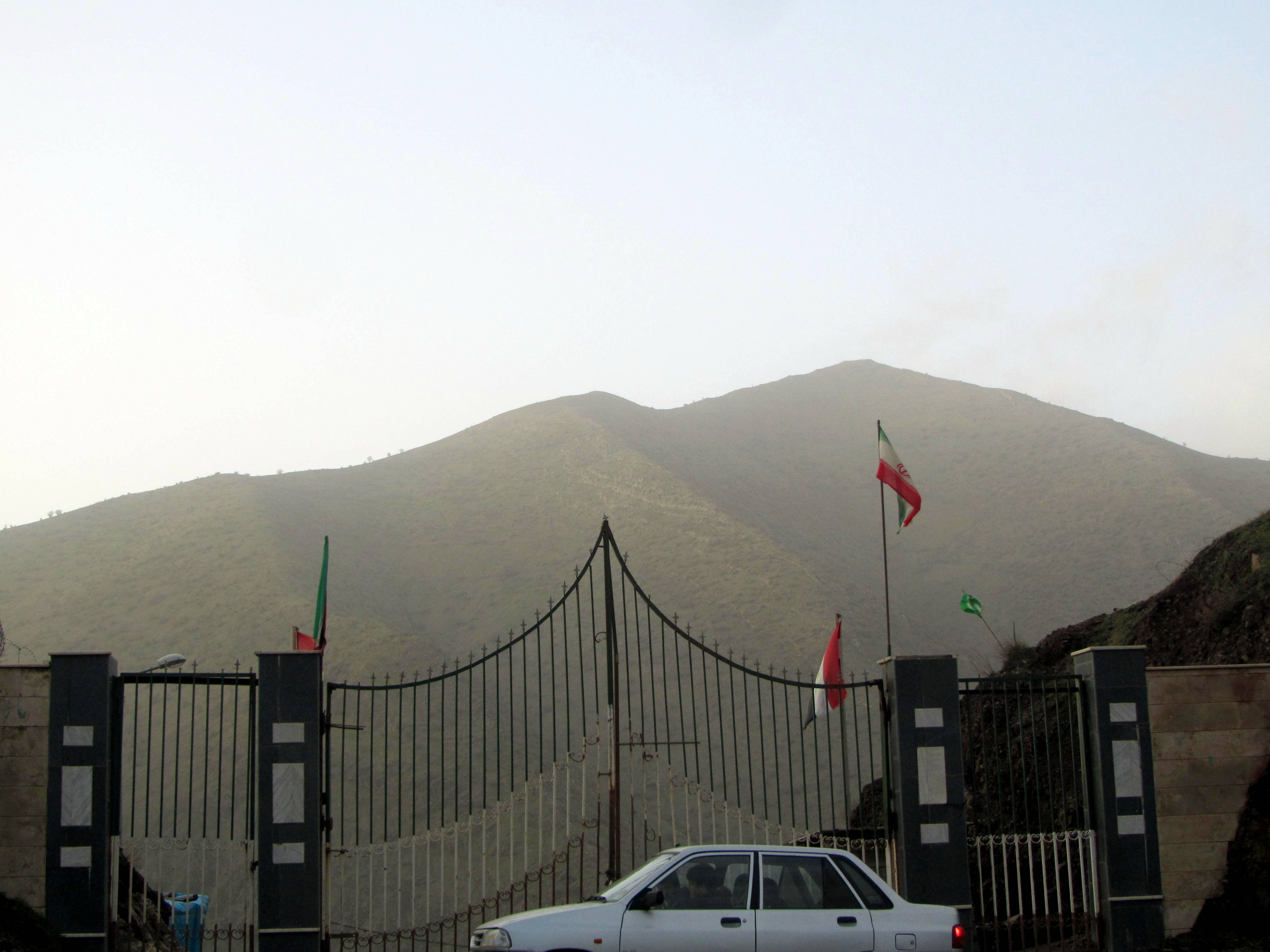 Photo by Hamidreza Sorouri / Persian Dutch Network